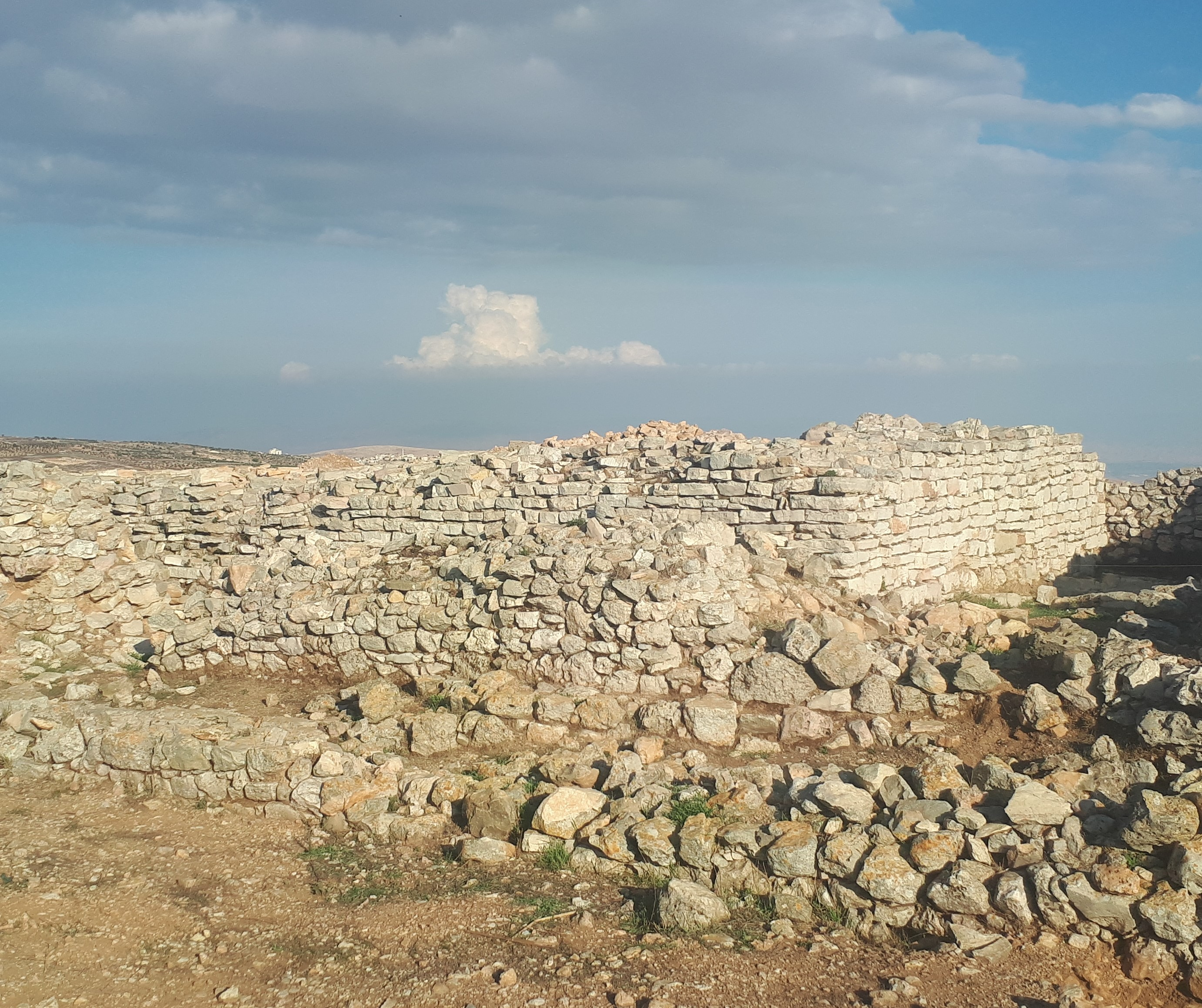 The ruins of Et-Tell near Ramallah, though to be of the Biblical city of Ai.